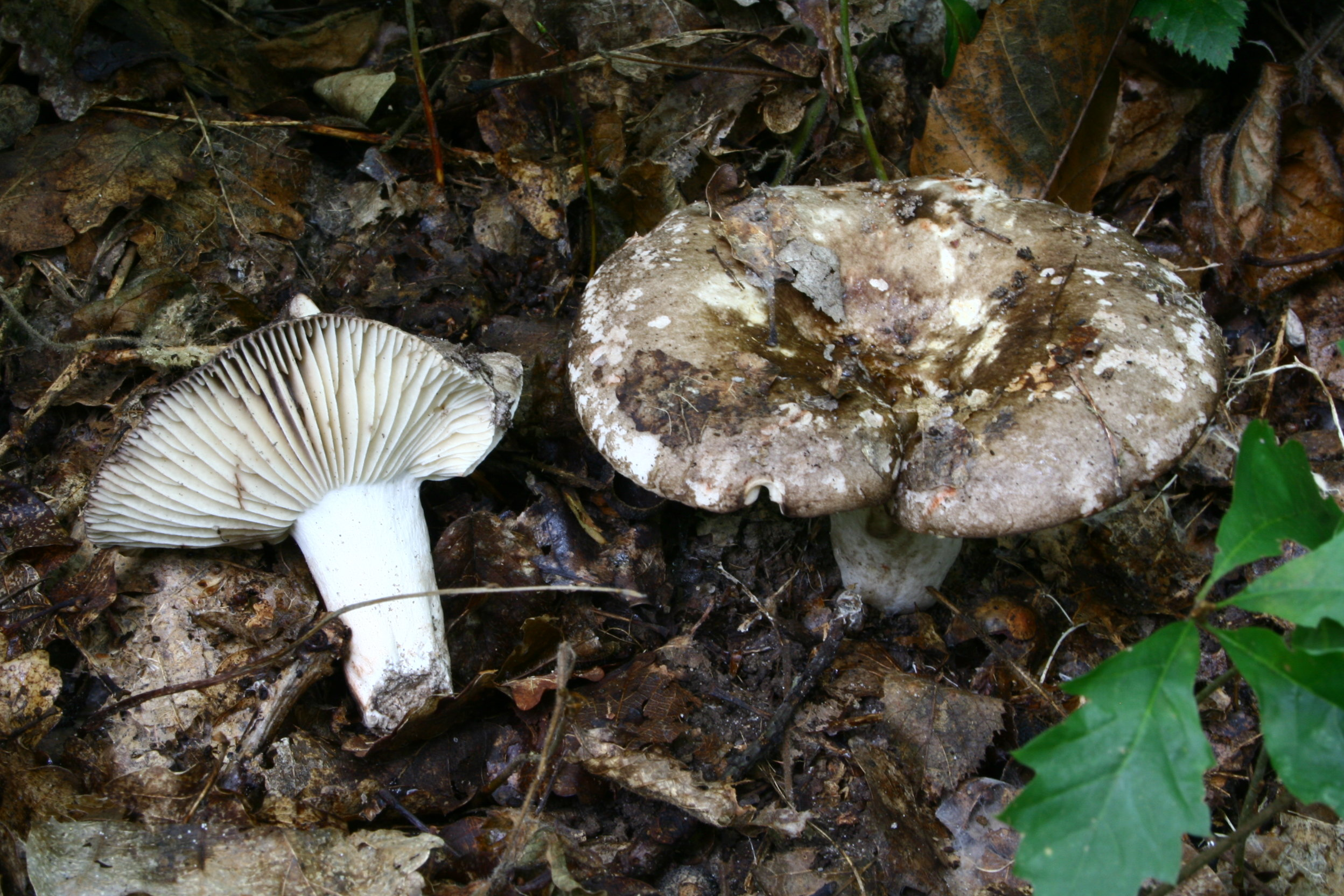 Russula nigricans in the Forêt de Sénart near Paris, France.